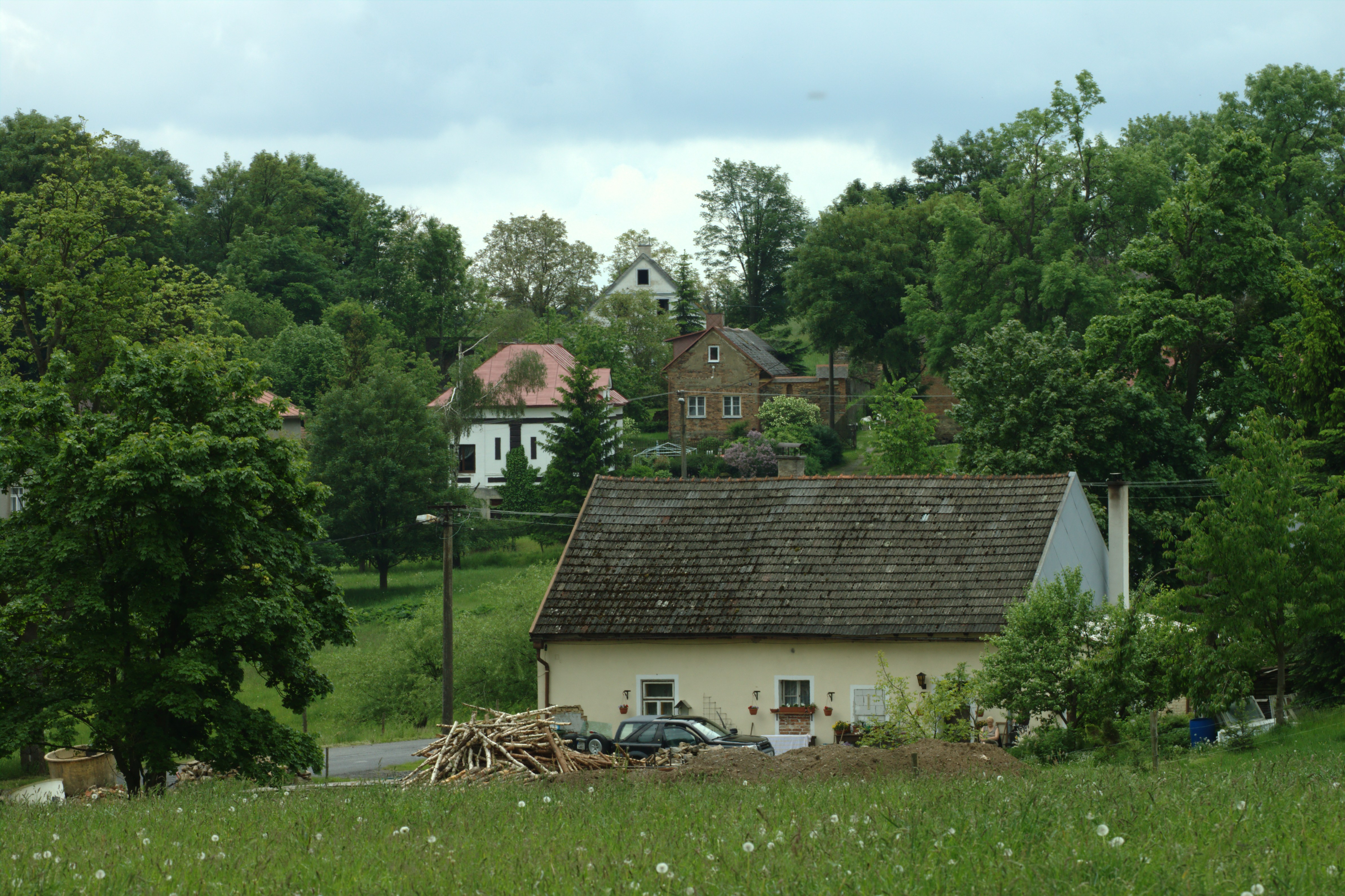 Buildings and structures in the village of Kladruby, Karlovy Vary Region, CZ